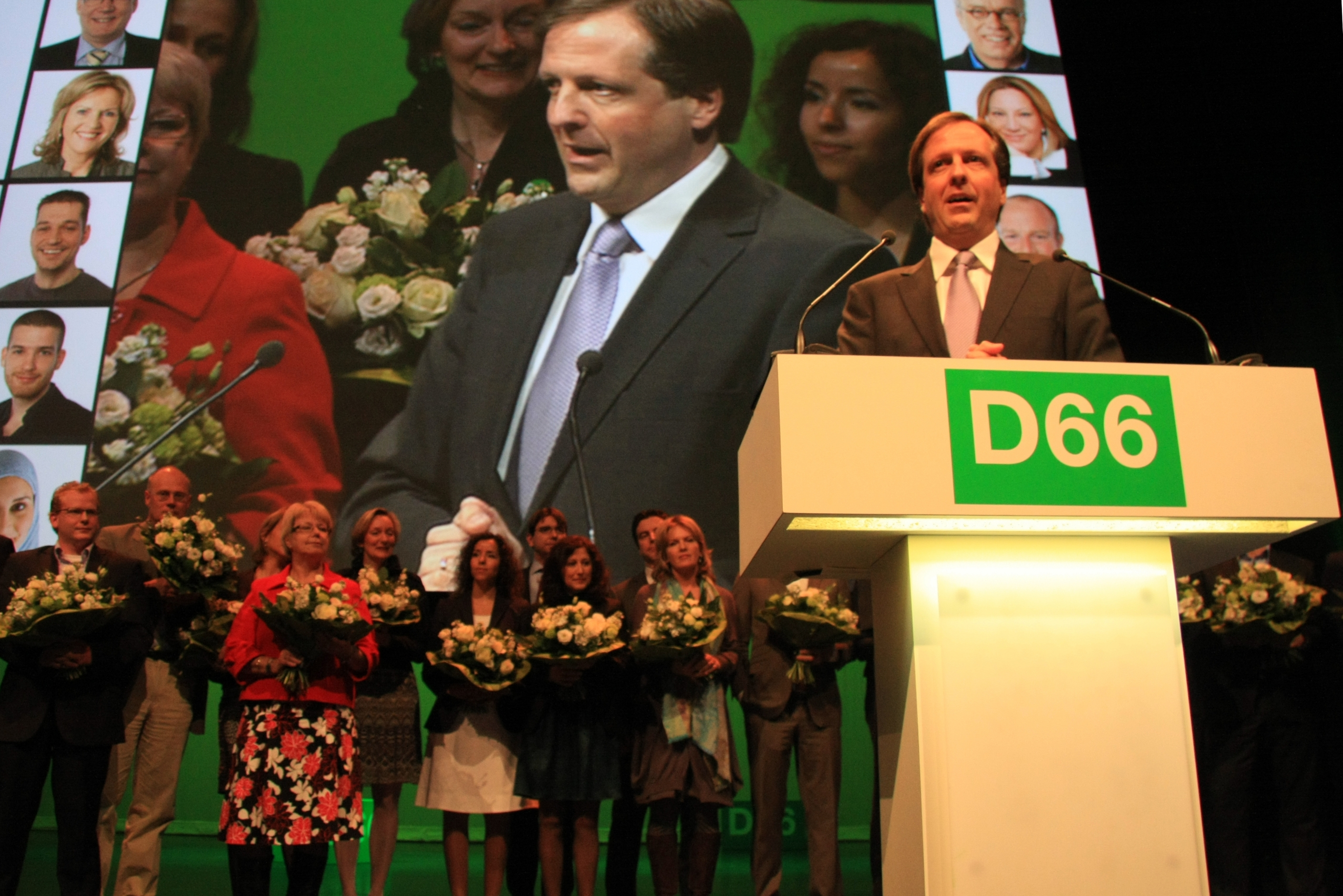 Picture from D66. Alexander Pechtold at party congress.